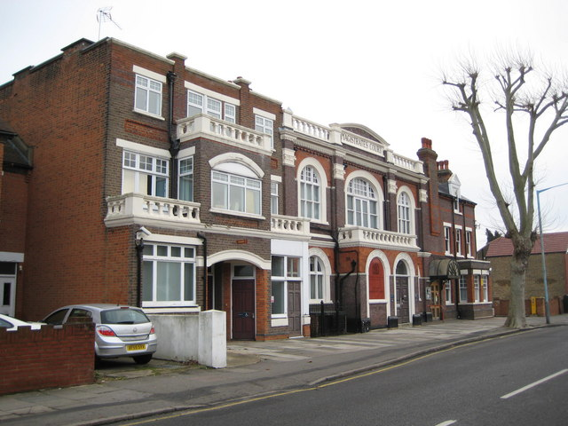 Feltham Magistrates' Court The Court is in Hanworth Road. The old Ordnance Survey map of 1897 shows this whole area as orchards. From an architectural viewpoint this front façade is a real dog's dinner. The central section is a very pleasing symmetrical Edwardian edifice, but the extensions on either side, although appearing contemporary with the central part, are totally out of sympathy with it and with each other. One other topical observation. At the time of the submission of this image a couple of English local authorities had just controversially announced that they were abandoning the use of the possessive apostrophe from all official use. The court is properly known as a Magistrates' Court, being the court of several magistrates, yet the title in the pediment of this original Edwardian building clearly has never had an apostrophe.